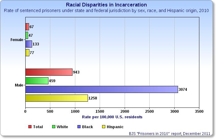 Note: Counts based on prisoners with a sentence of more than 1 year. All estimates include persons under age 18. "Total" includes American Indians, Alaska Natives, Asians, Native Hawaiians, other Pacific Islanders, and persons identifying as two or more races. "Black" excludes persons of Hispanic or Latino origin.